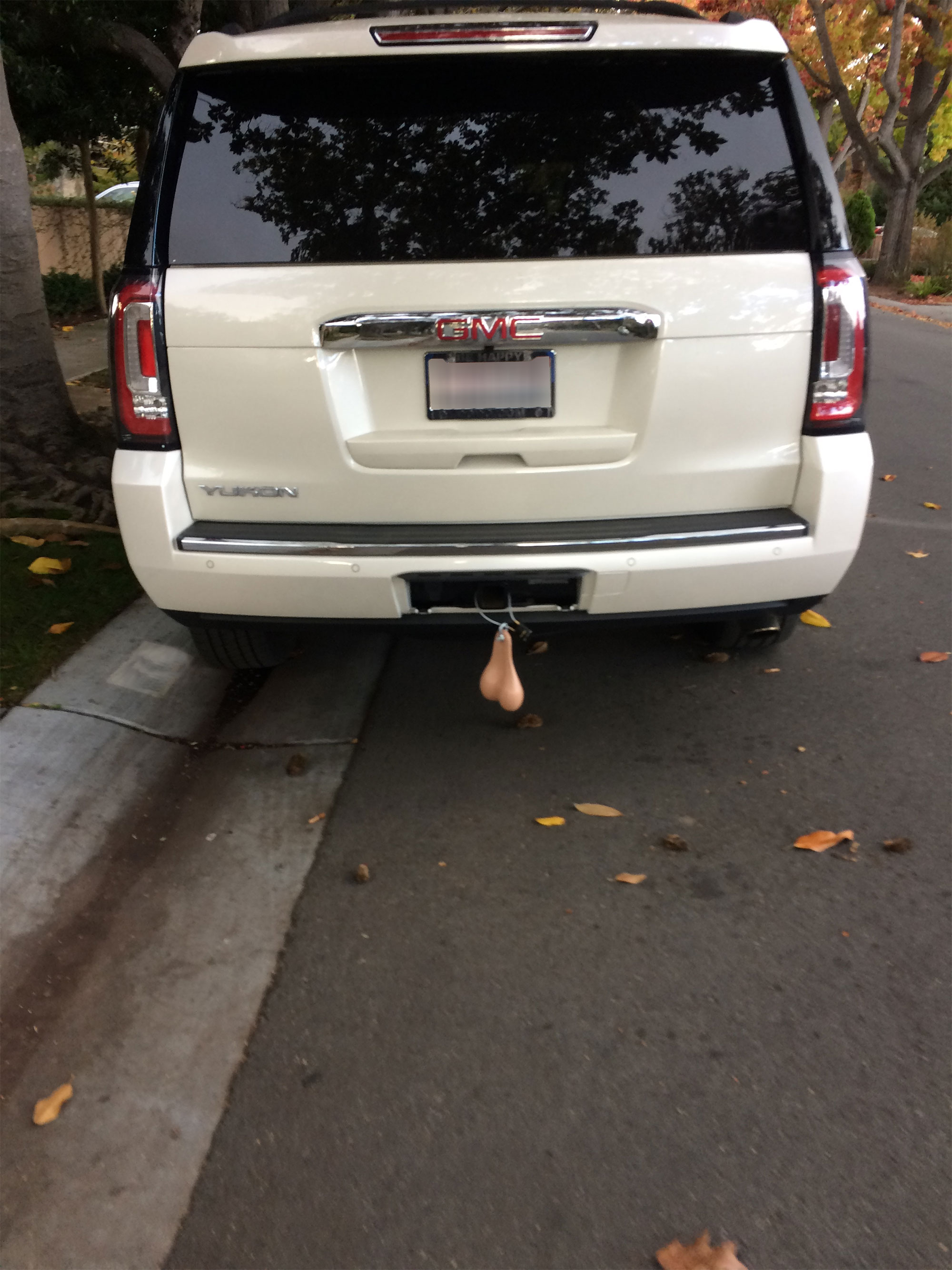 "Truck nuts" vehicle adornment hang from the rear of a GMC Yukon.